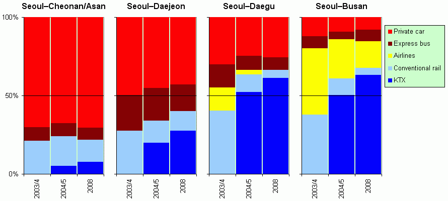 Evolution of intercity passenger transport modal shares for selected relations in the Gyeongbu corridor with the introduction of KTX services